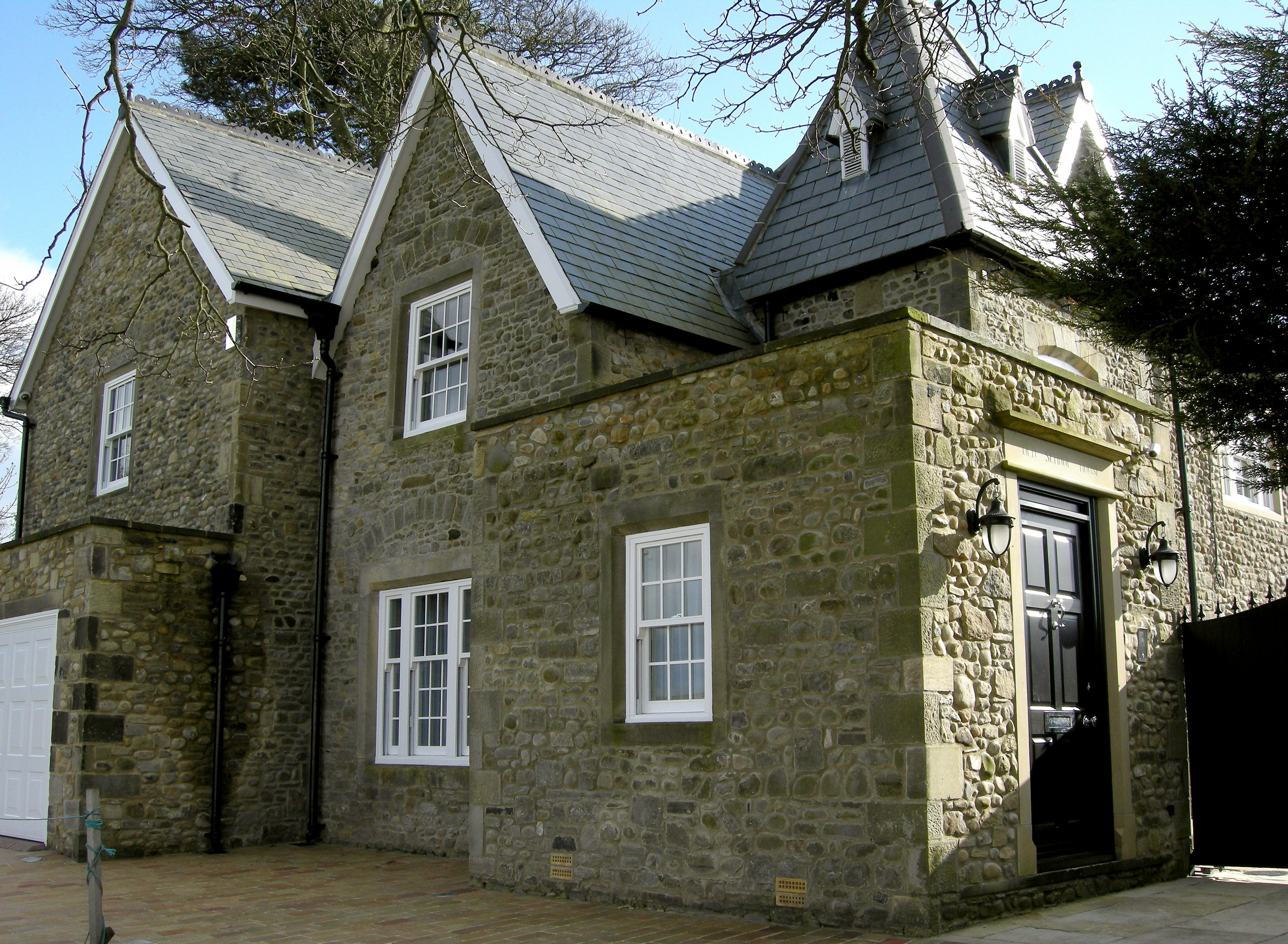 High Coniscliffe, County Durham, England. Showing the church hall, which was previously the village school, built 1830.